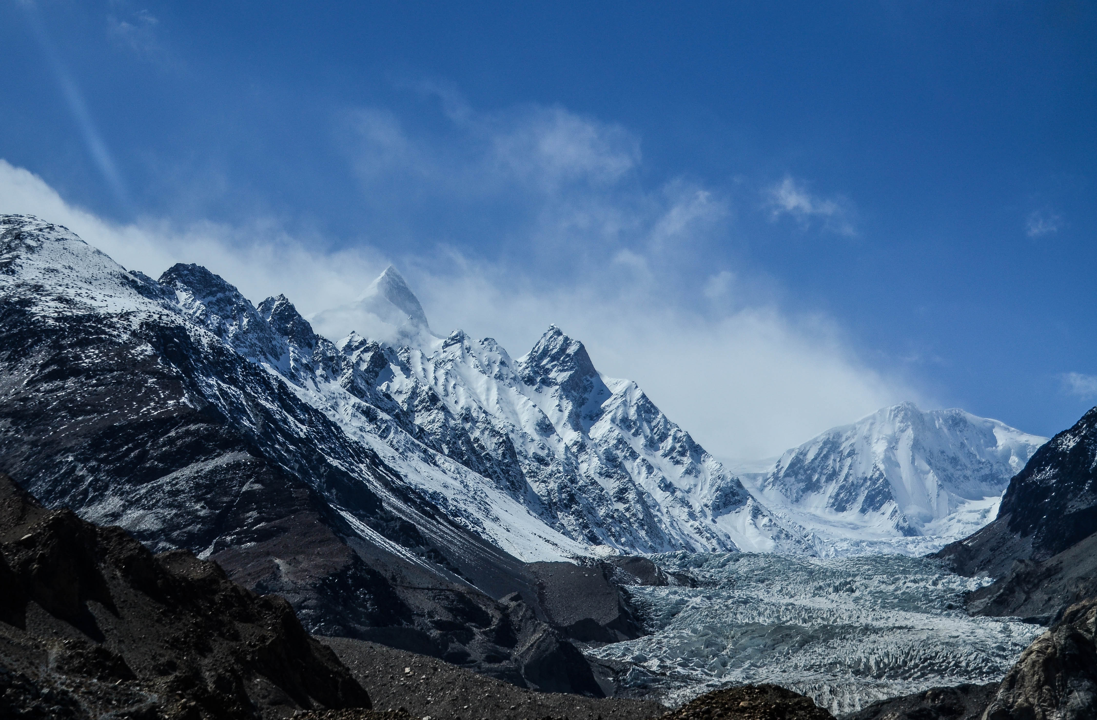 It's a pic on the way to khunjerab, it is Passu glacier with Passu Sar East on the right and Shispare (center left, the peak in the clouds).